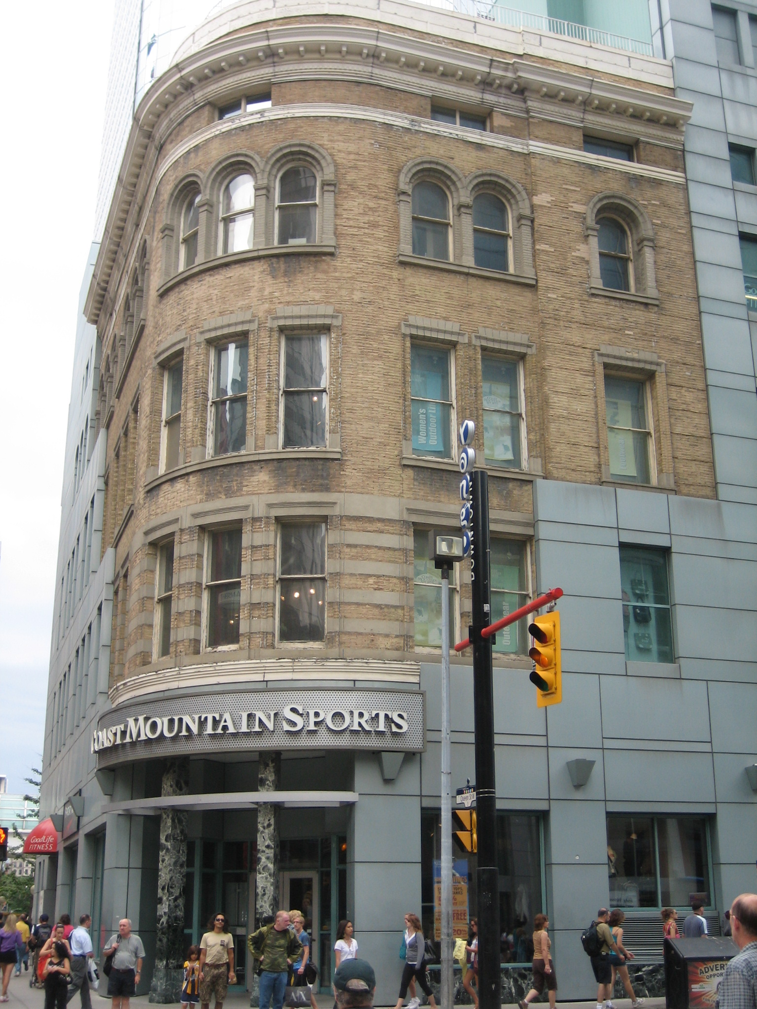 former Woolworth Store (Toronto), now Coast Mountain Sports, 218 Yonge Street, Toronto, Ontario